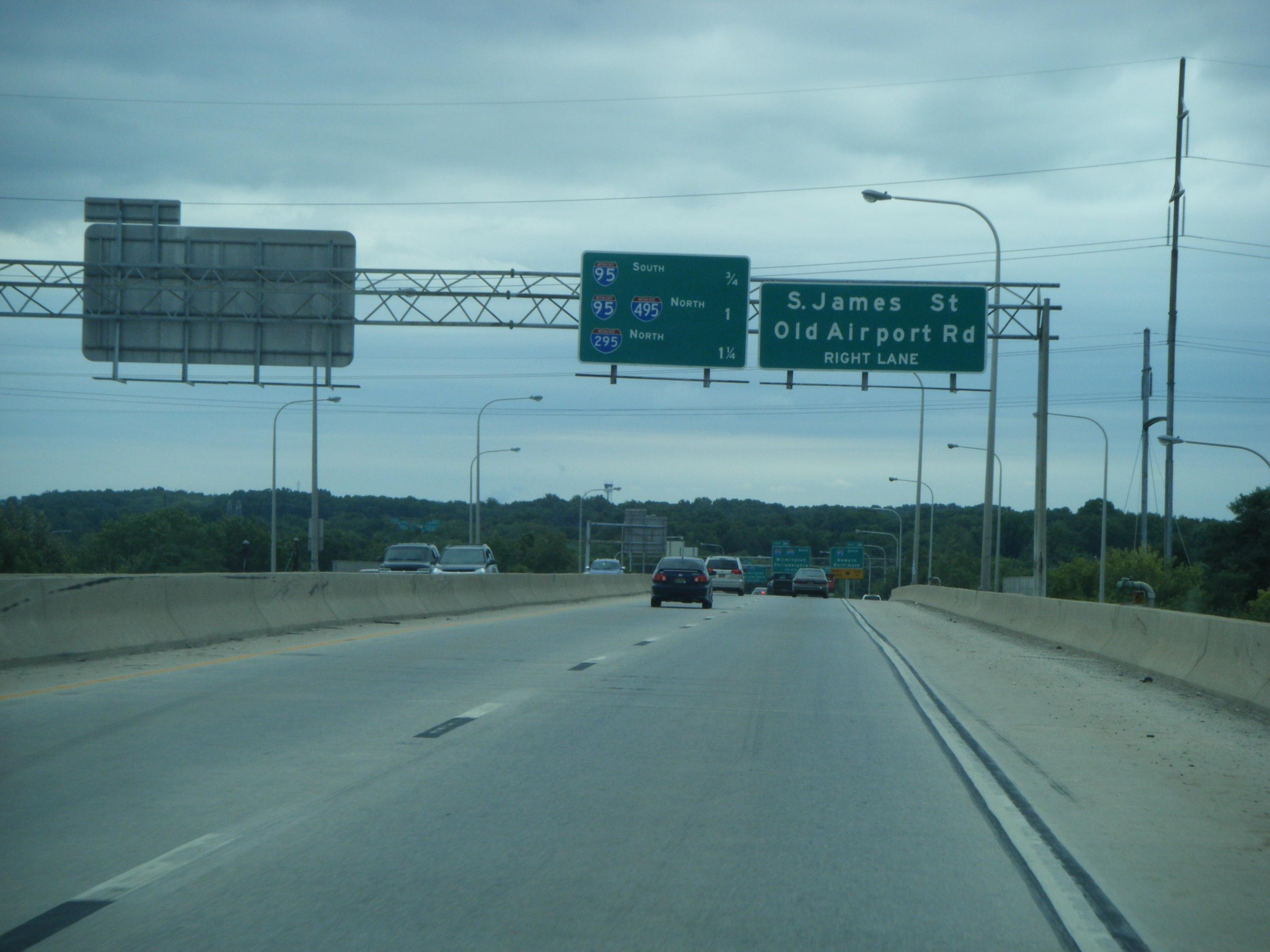 Southbound Delaware Route 141 approaching the exit for S. James Street/Old Airport Road (exit 4B) in Newport, Delaware.